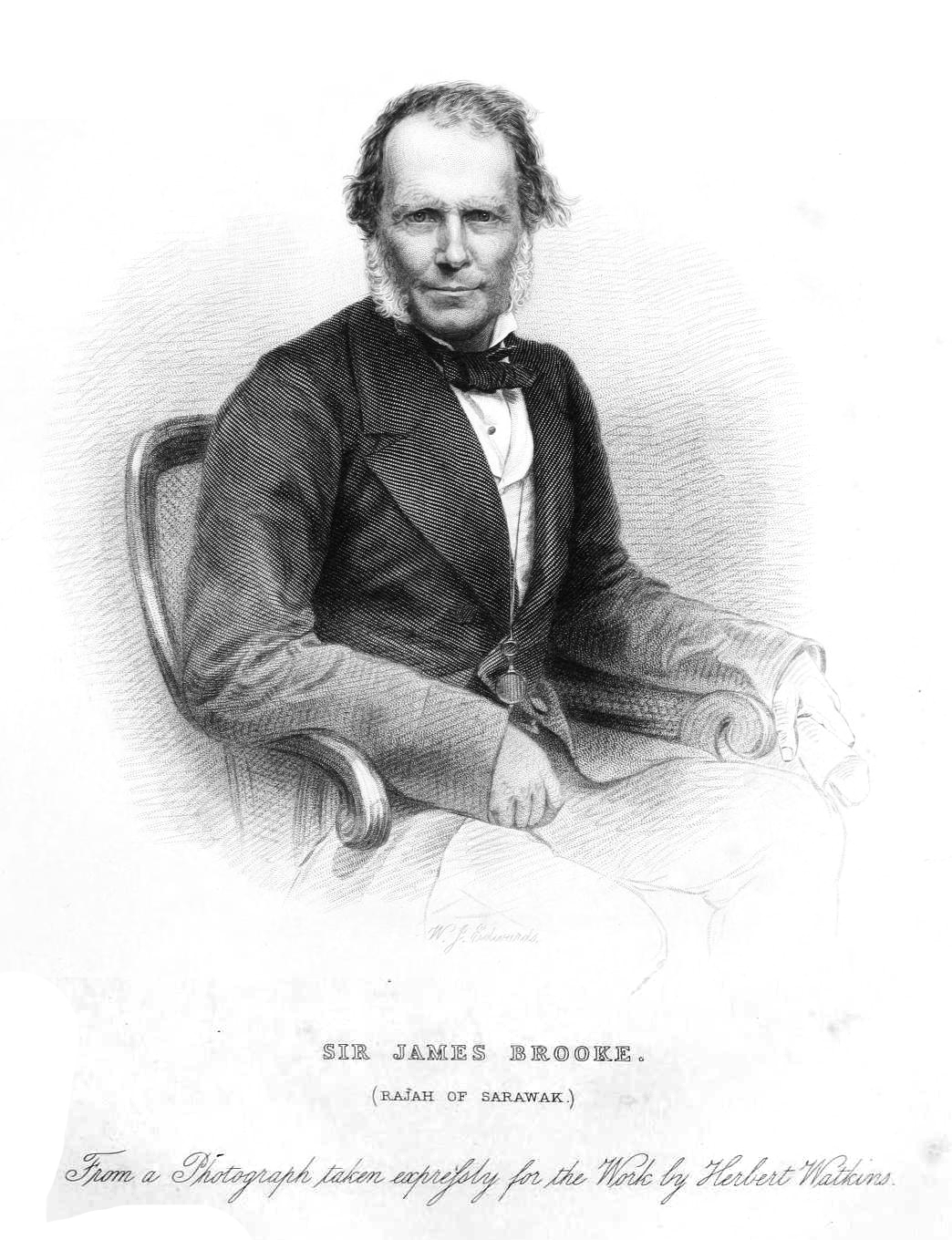 Travancor Rajah receiving Outram and staff